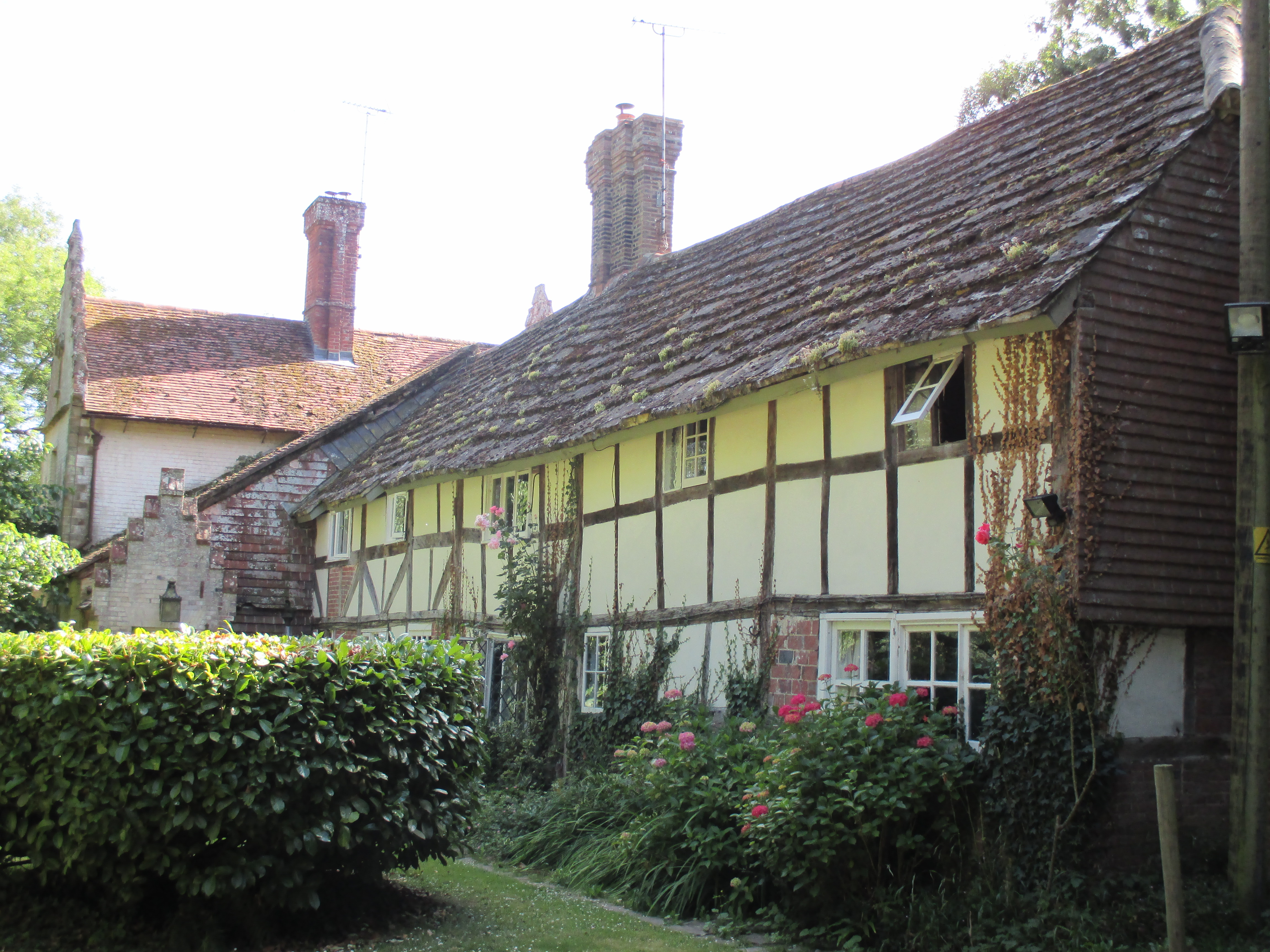 An outbuilding at Hickstead Place, Twineham, West Sussex, photographed from the north-east.